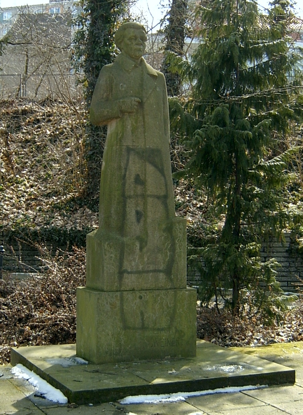 Memorial for Erich Weinert in Frankfurt (Oder), Brandenburg, Germany